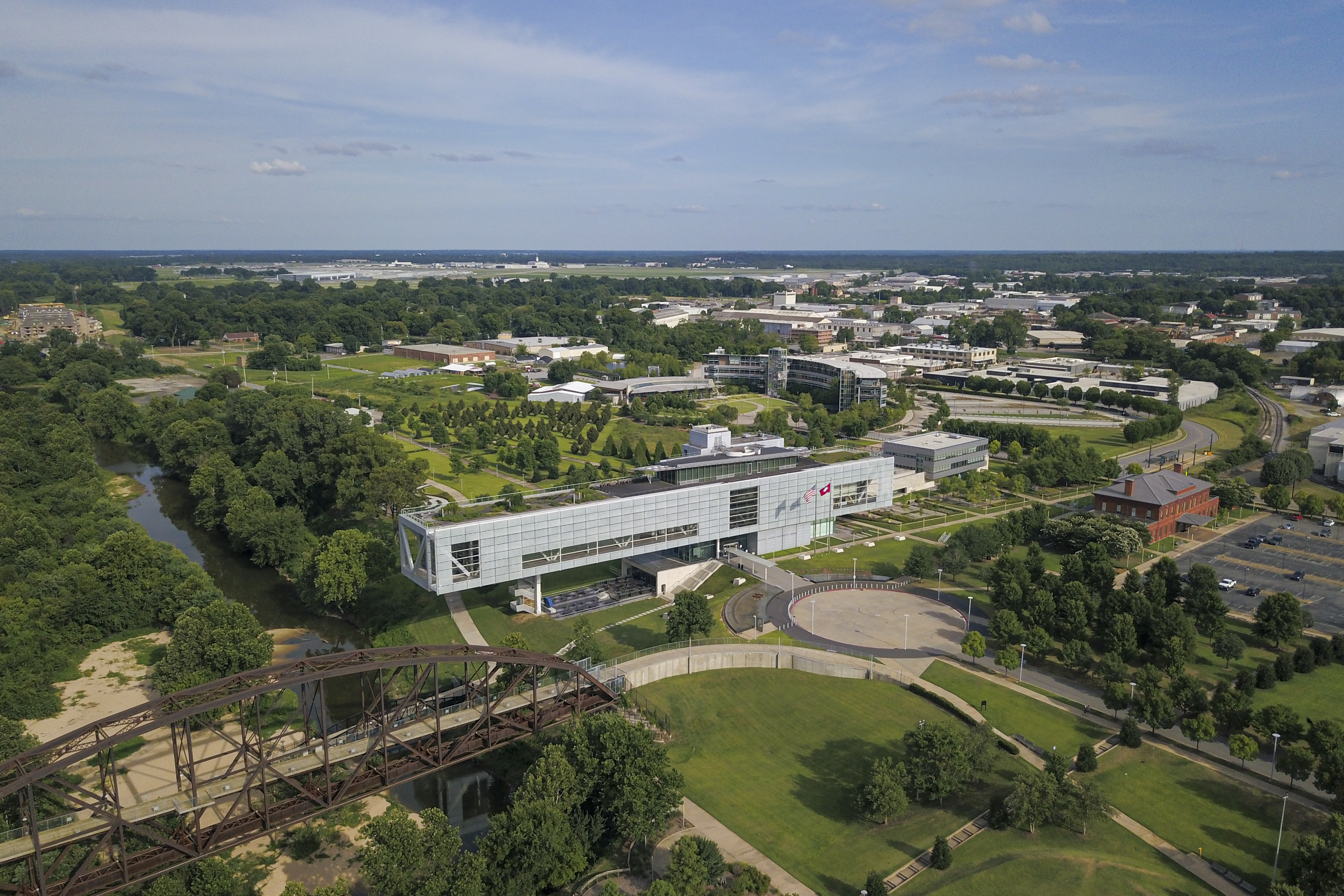 Aerial photo of the William J. Clinton Presidential Center and Park (center), the Clinton School of Public Service (right), and the Bill and Hillary Clinton National Airport (background) in Little Rock, Arkansas